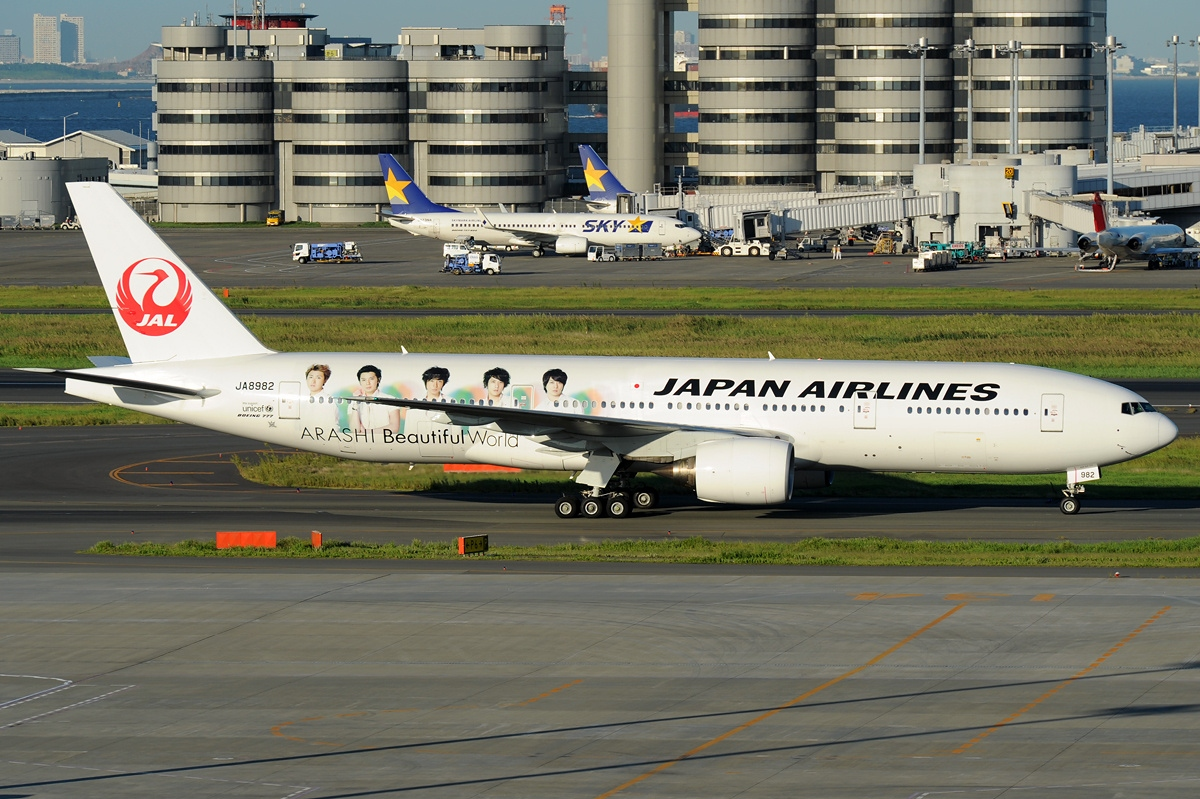 "ARASHI Beautiful World"